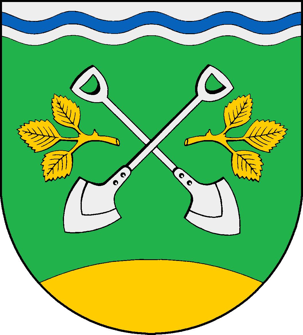 Coat of arms of the municipality Westermoor in Schleswig-Holstein, Germany.